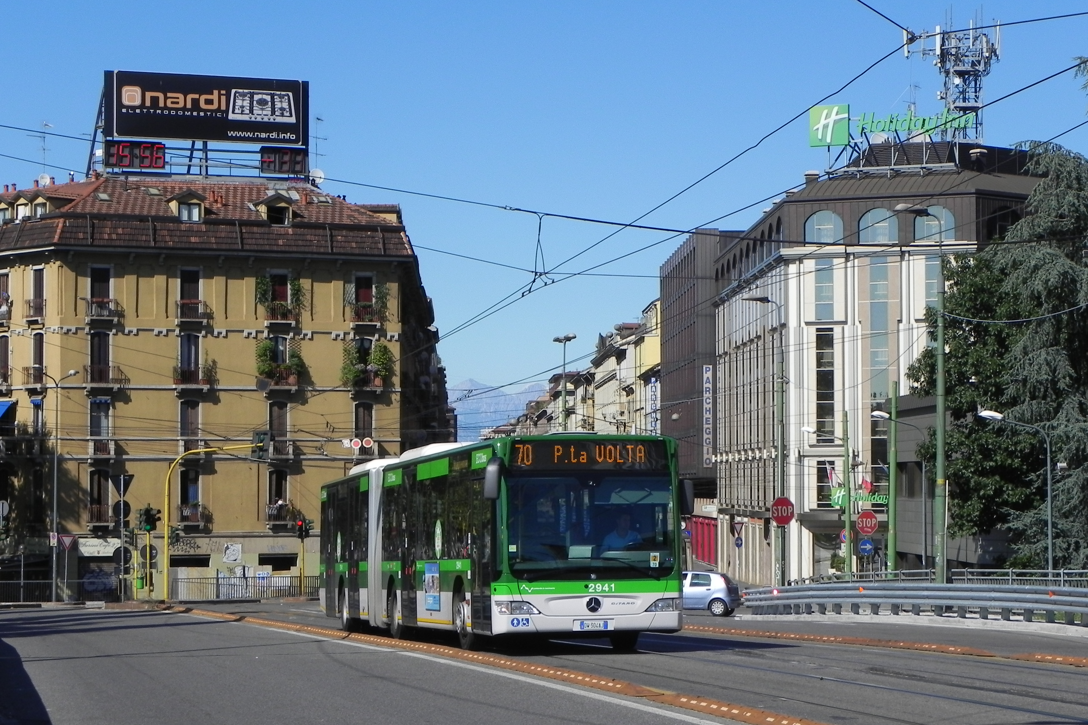 2941 in via Carlo Farini